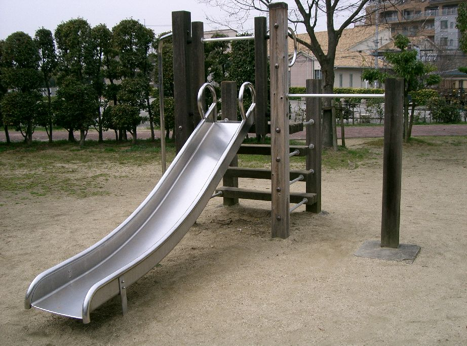 Playground slide